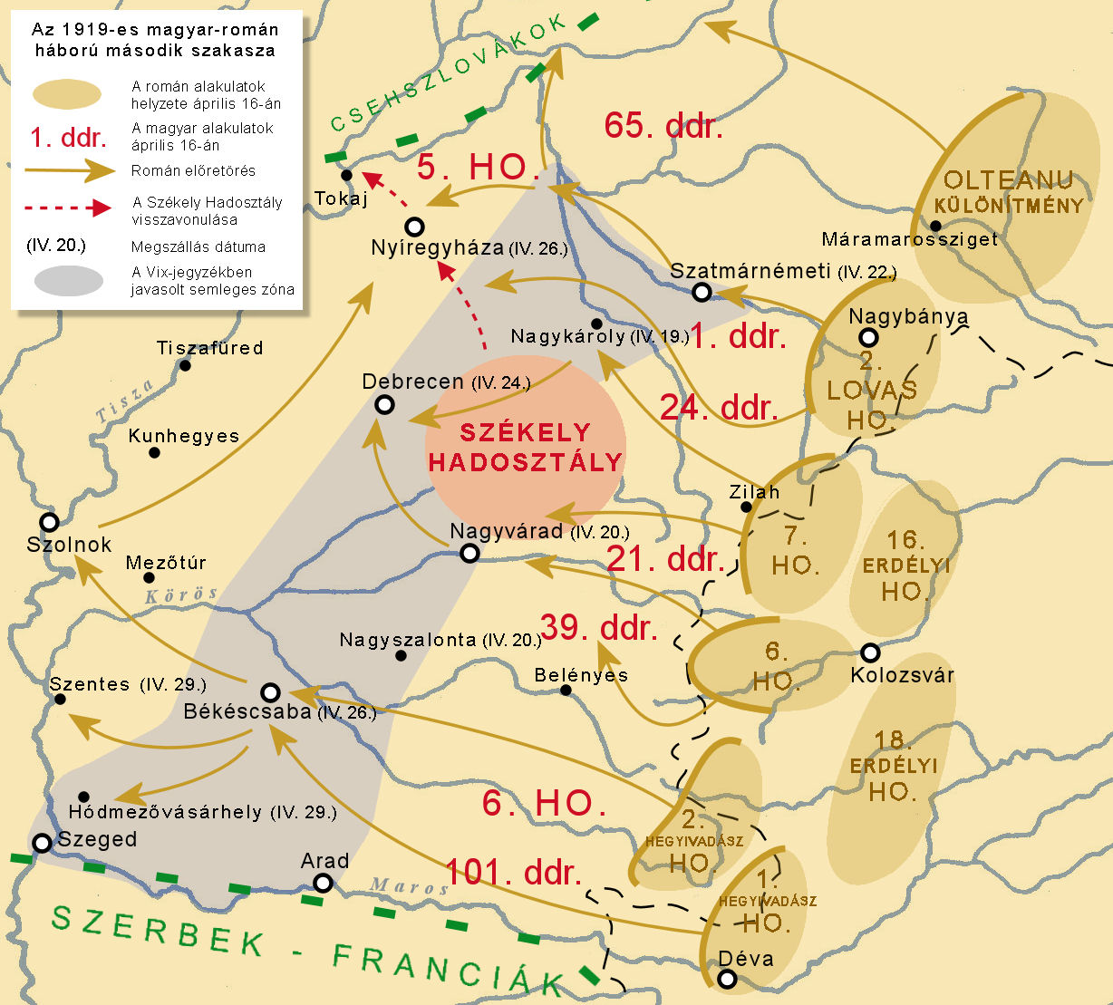 Hungarian-Romanian War of 1919, Romanian advance to Tisza (Language: Hungarian)